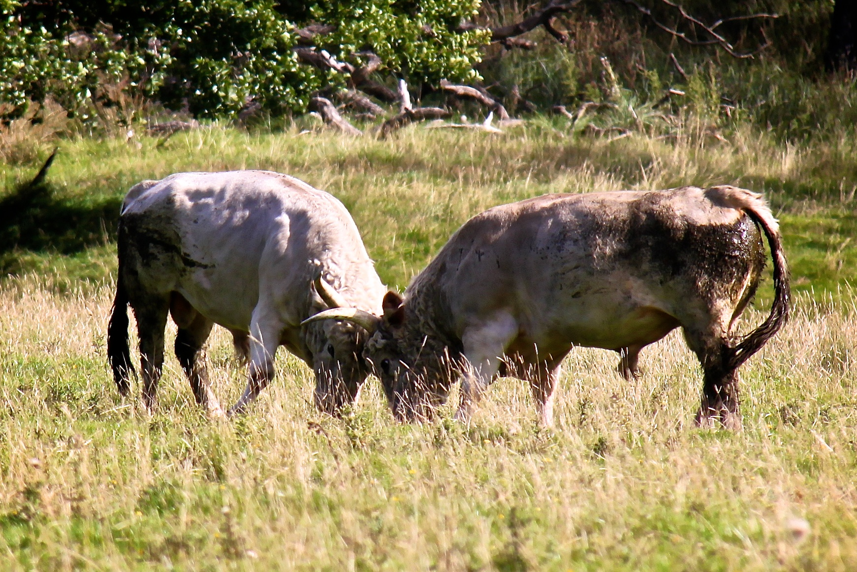 White Chillingham bulls sparring. Note the liberal applications of 'war paint' on their flanks.